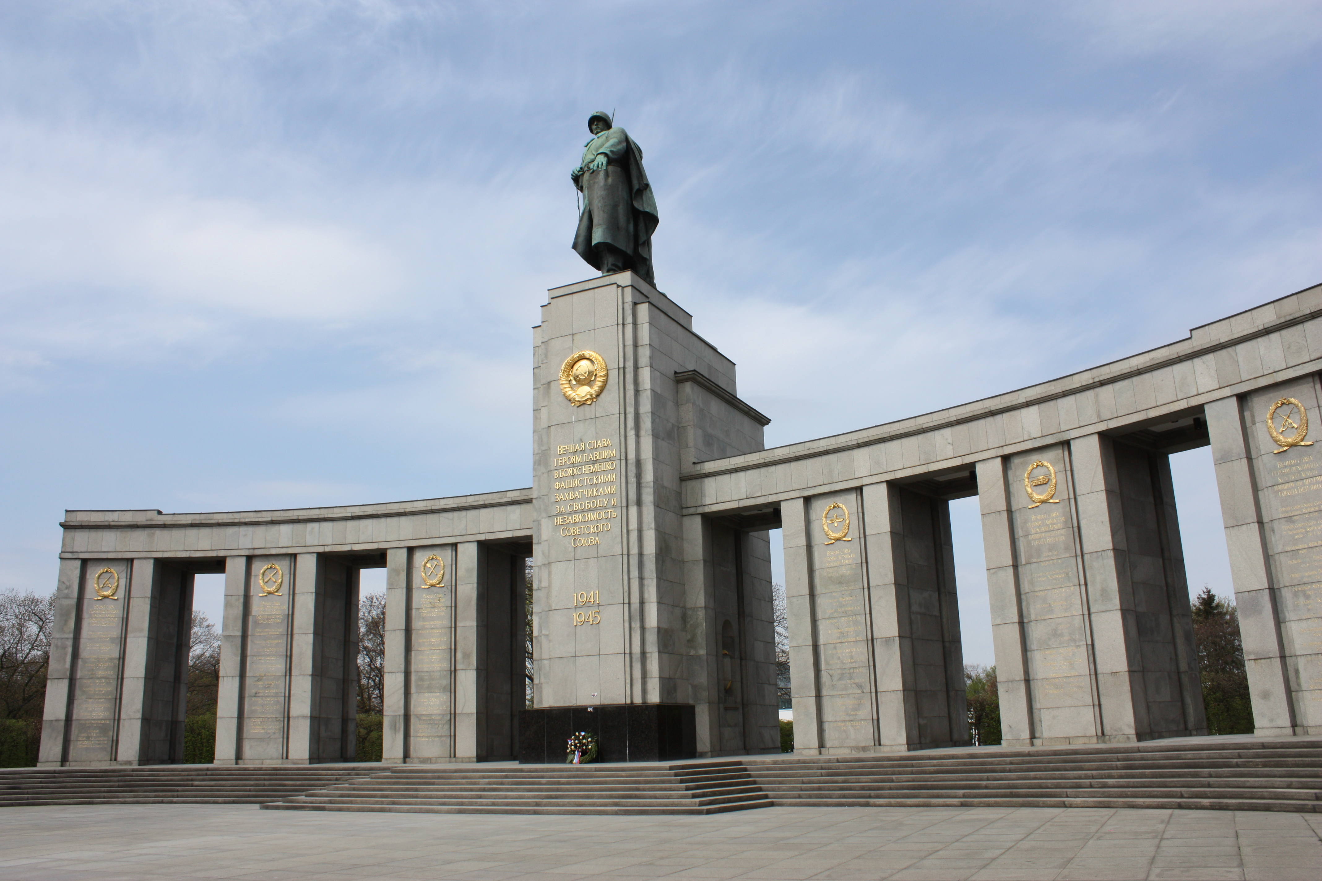 The Soviet War Memorial (Tiergarten), one of several war memorials in Berlin, Germany, erected by the Soviet Union to commemorate its war dead, particularly the 80,000 soldiers of the Soviet Armed Forces who died during the Battle of Berlin in April and May 1945.